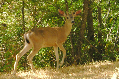 Black-tailed deer Taken by Elf